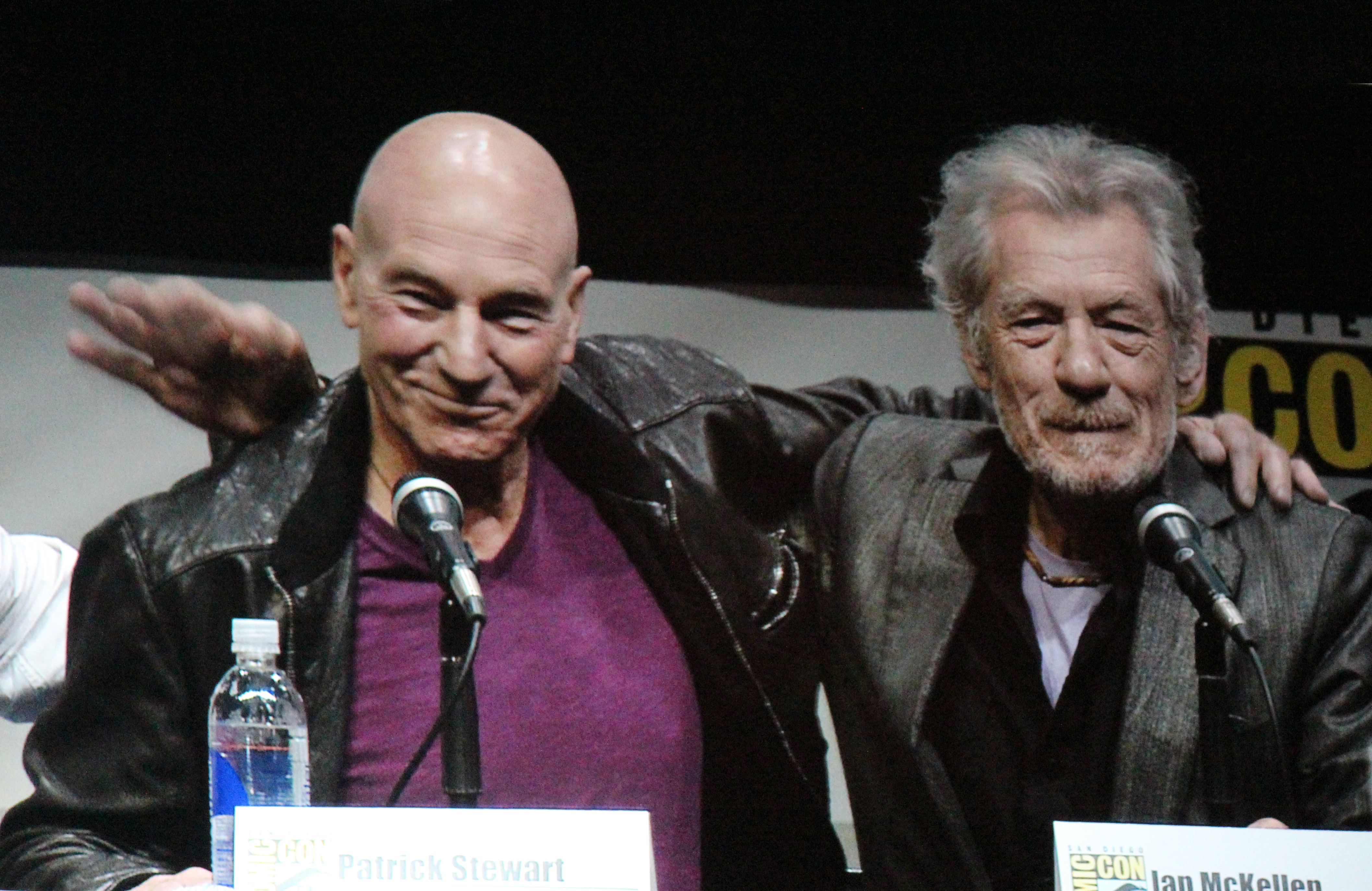 Comic-Con 2013